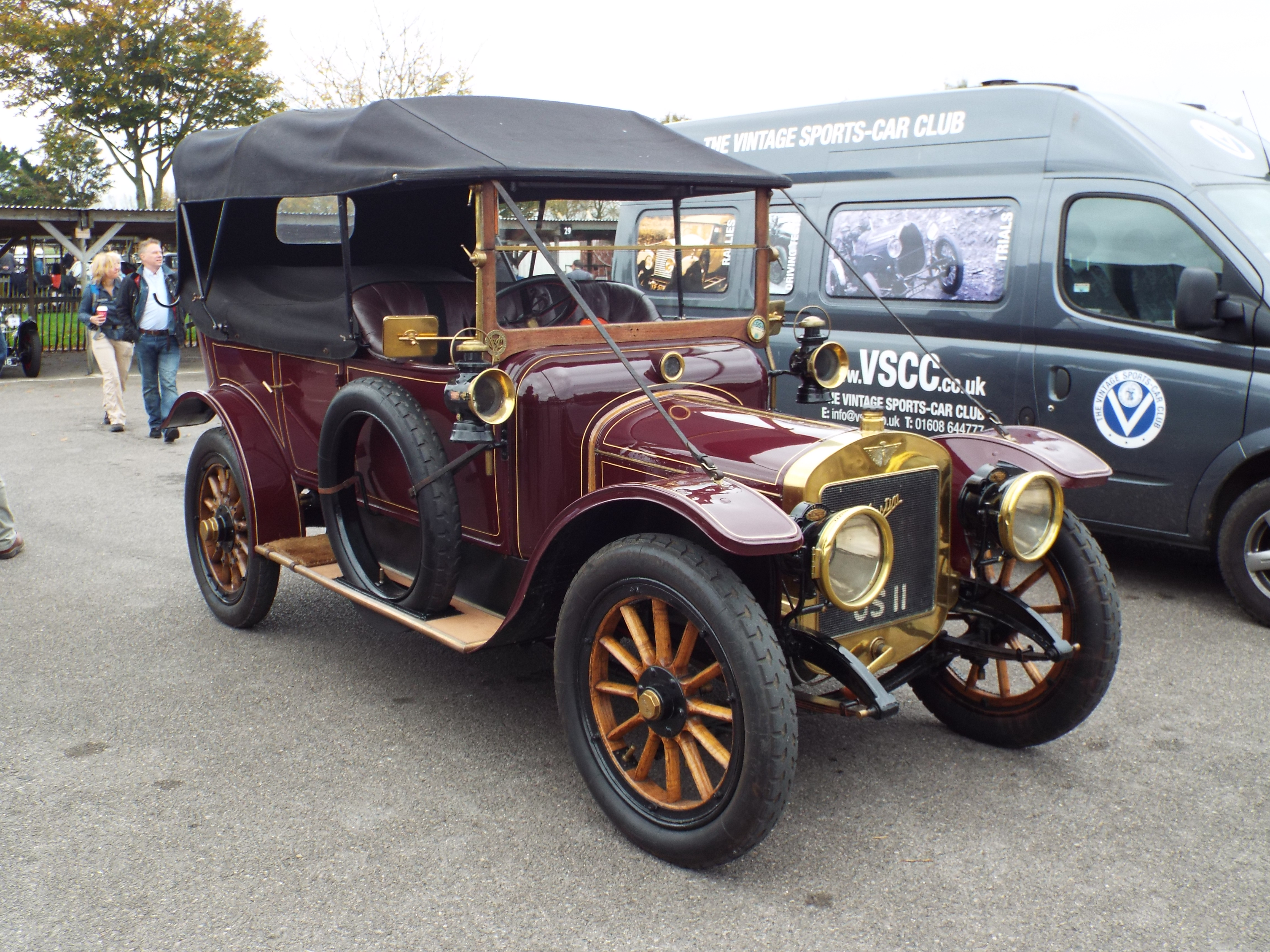 1911 Austin 18-24 tourer car 963 engine 955/11/292 In the paddock VSCC Autumn Sprint Goodwood Aerodrome 25 October 1914 Source of information Ian Dimmer, The Edwardian Austin, the survivors, The Vintage Austin Register Limited, 2014